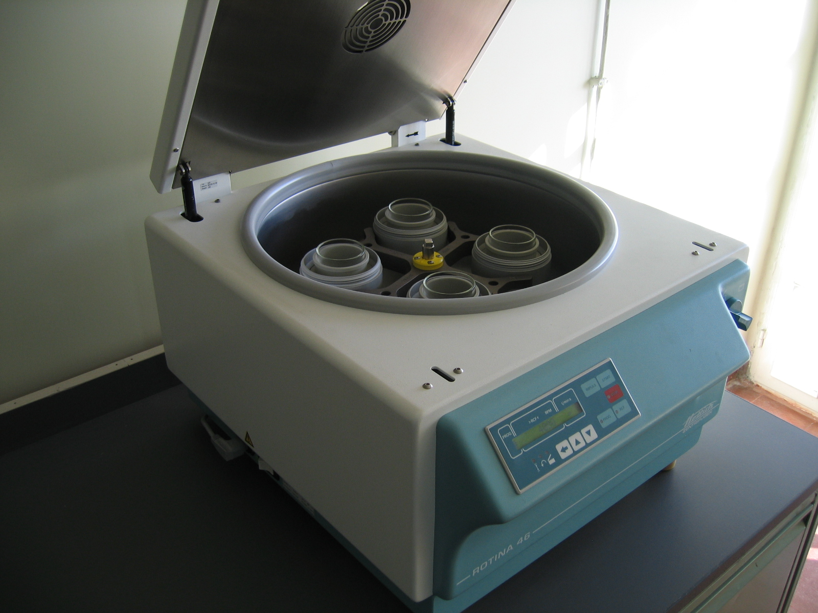 A Laboratory liquid centrifuge, Materials and Energy Research Center, Karaj, Iran.